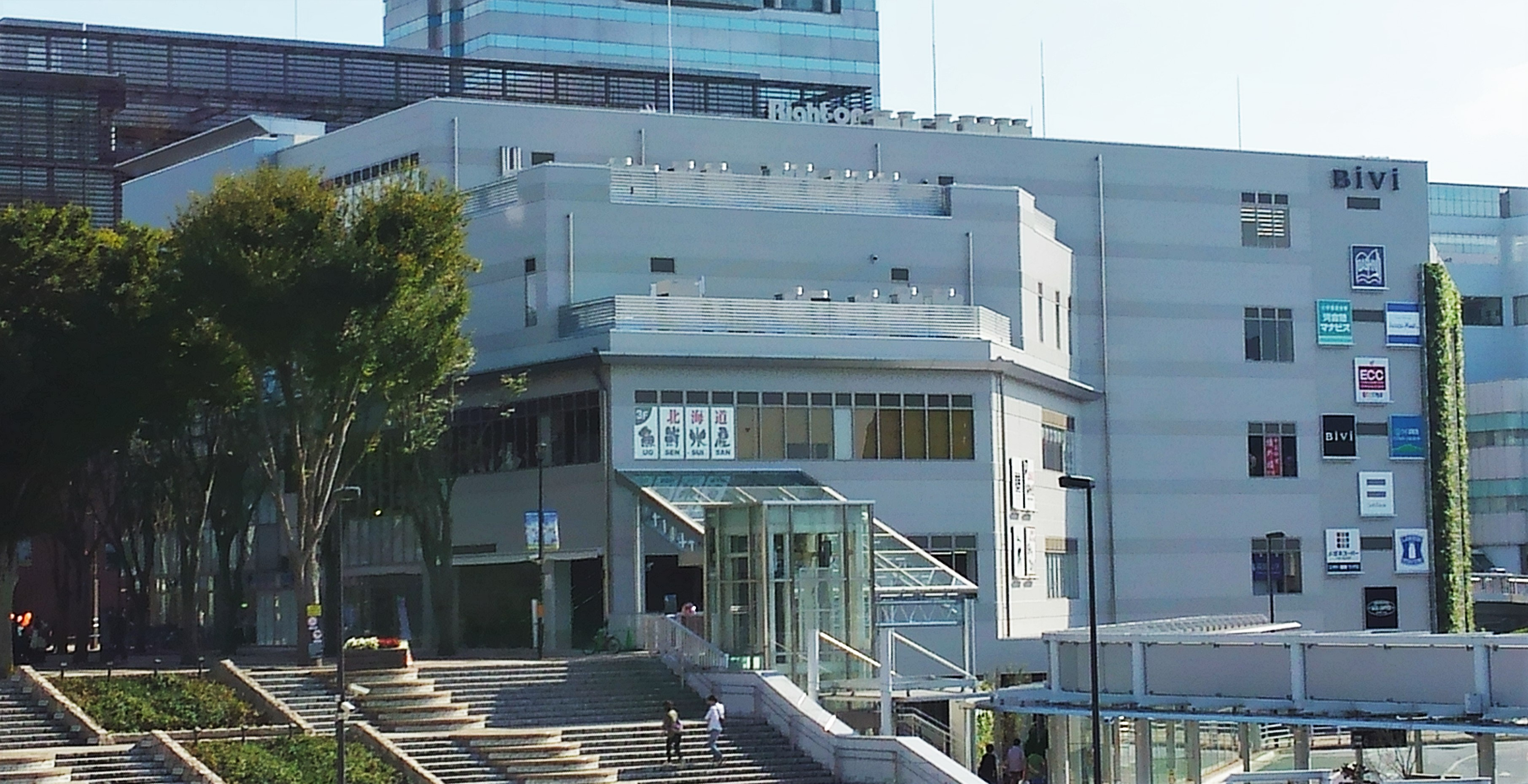 BiVi TSUKUBA